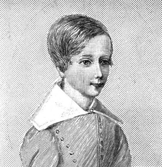 Portrait of Sabine Baring-Gould, age 5